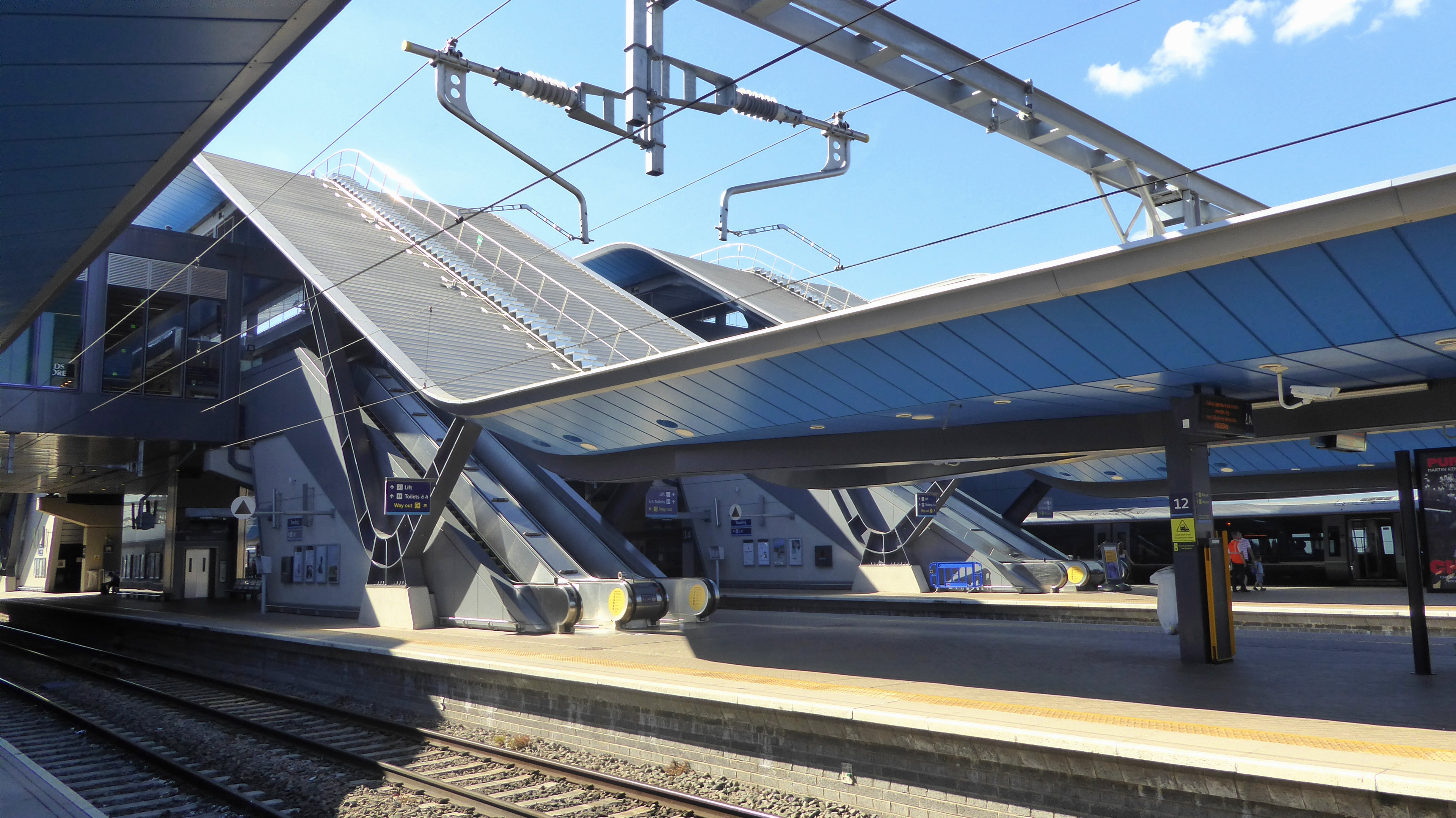 Platform 12 on Reading Railway Station, as seen from platform 11.